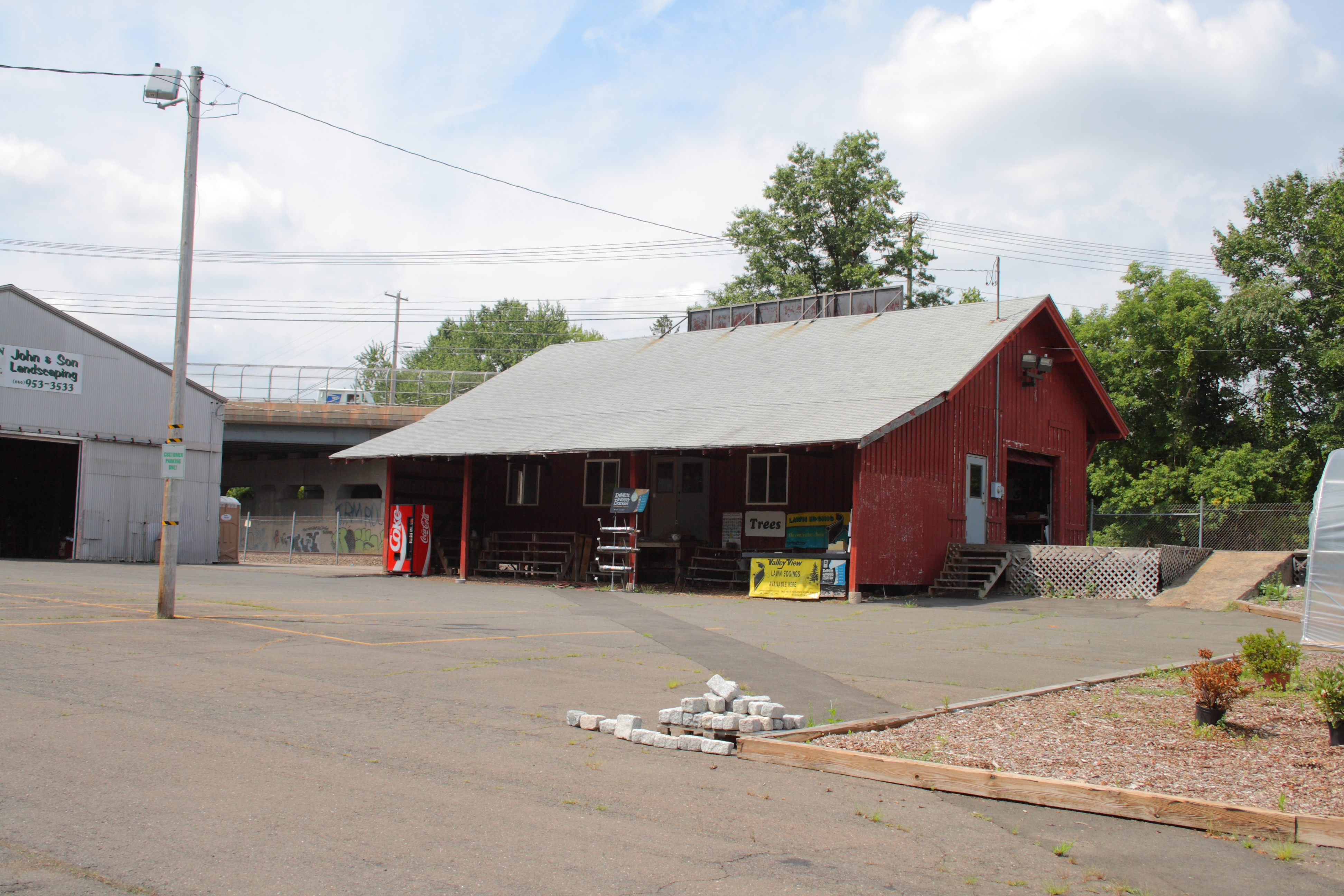 The site of the Newington Junction Railroad Depot, 160 Willard and 200 Francis Aves., a Registered Historic Place in Newington, Connecticut. The site is now a the location of a garden center and landscaping business.